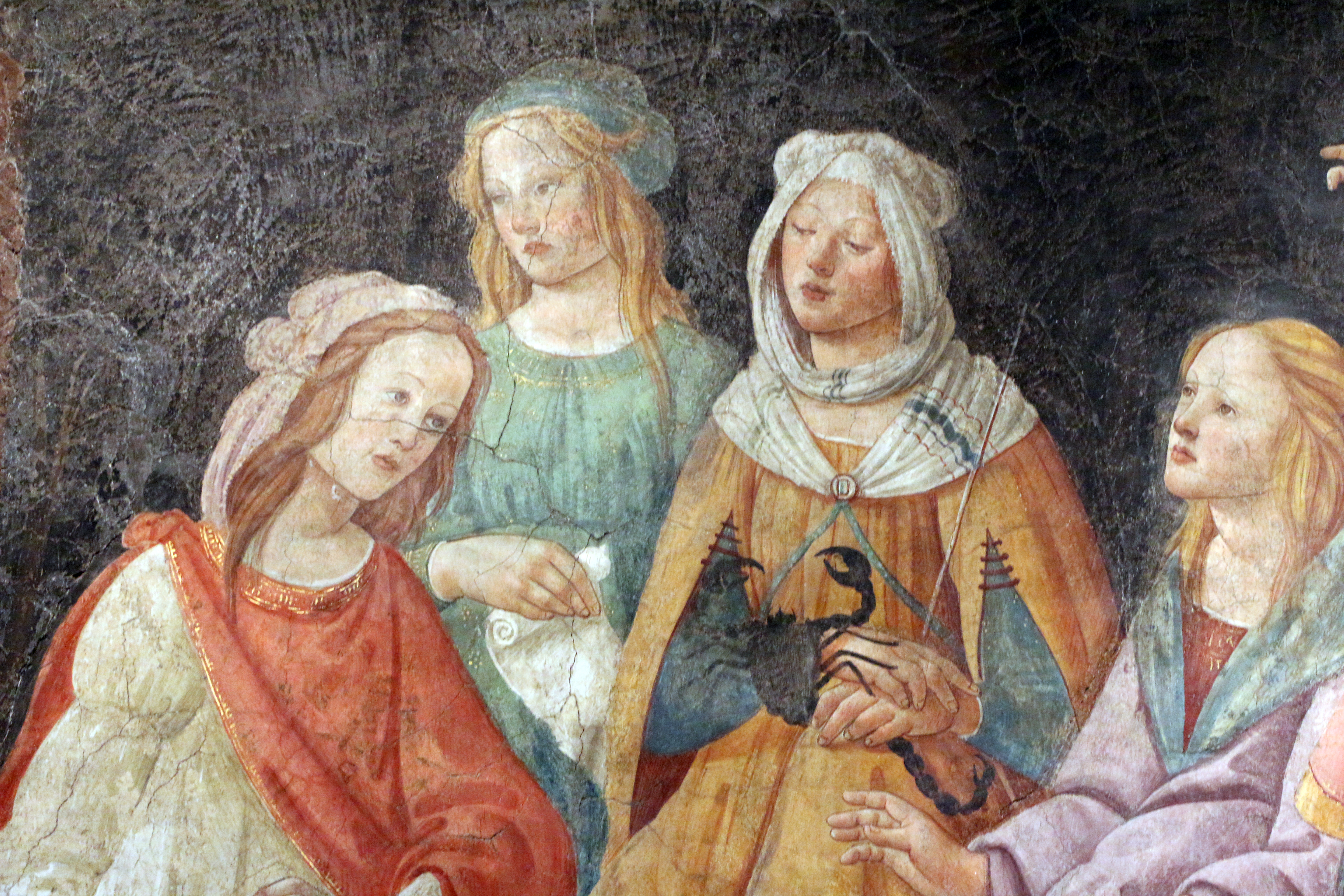 Paintings from Italy in the Louvre